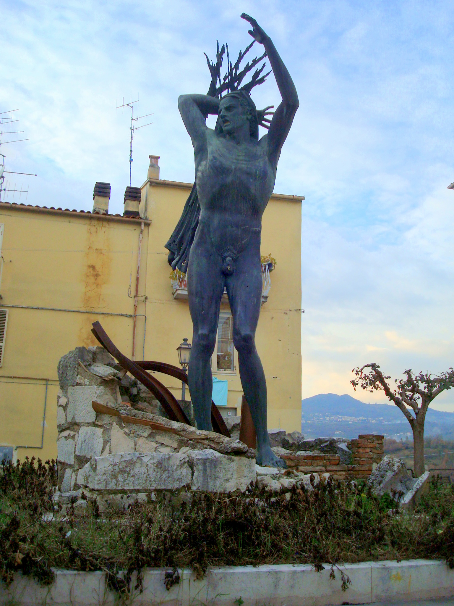 Statua ai caduti del X settembre di isernia